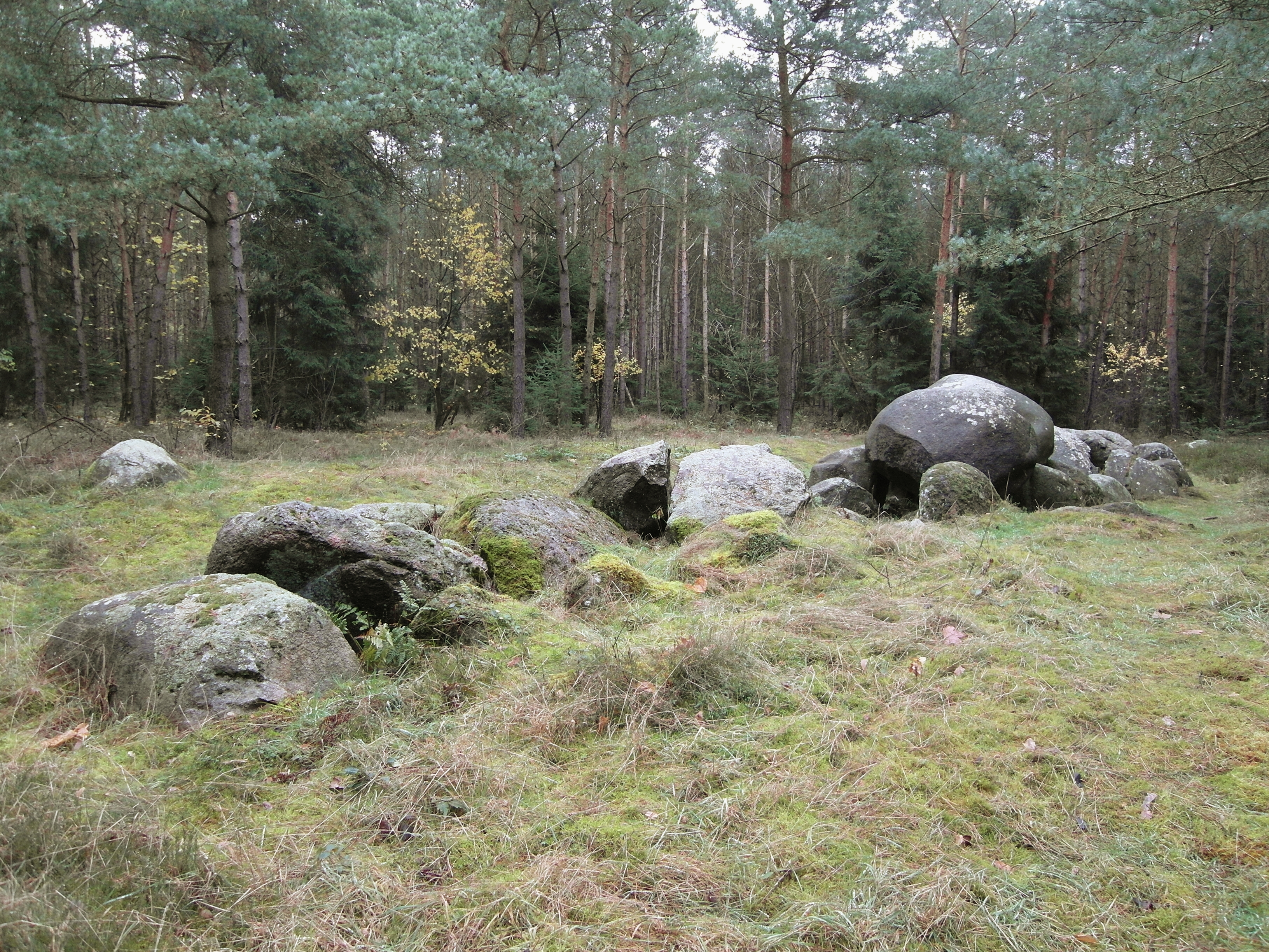 Megalithic tomb "Auf dem Radberg" (district Emsland, Lower Saxony).